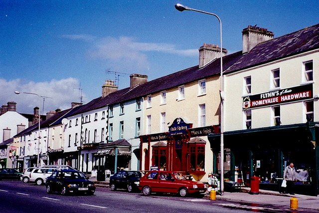 Moate - Main Street (N6) Our tour bus stopped here so we could exchange $USA for Irish Punt at a local bank, as we didn't have time to do that at the Dublin airport.